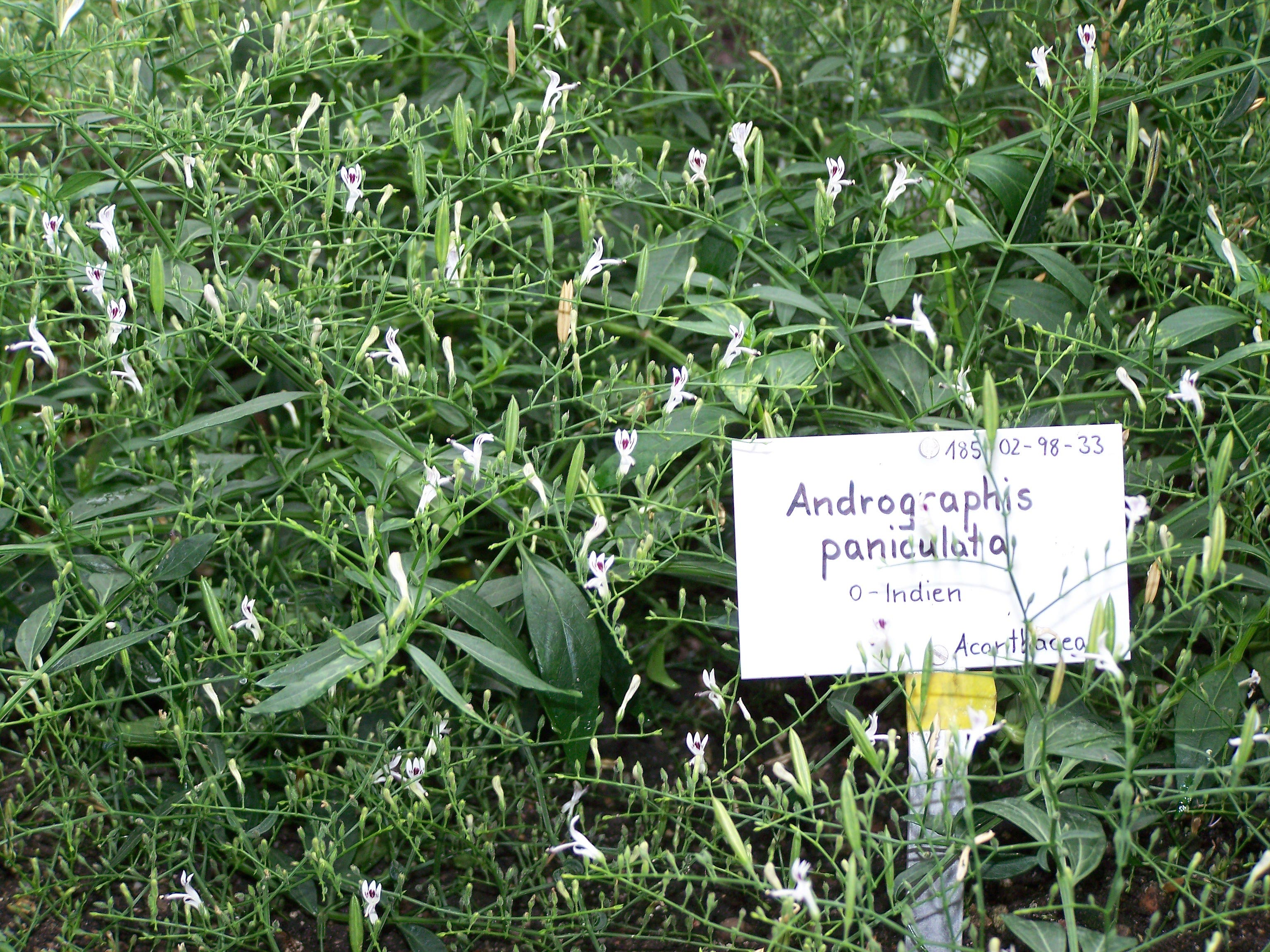 Andrographis paniculata, Botanischer Garten Berlin